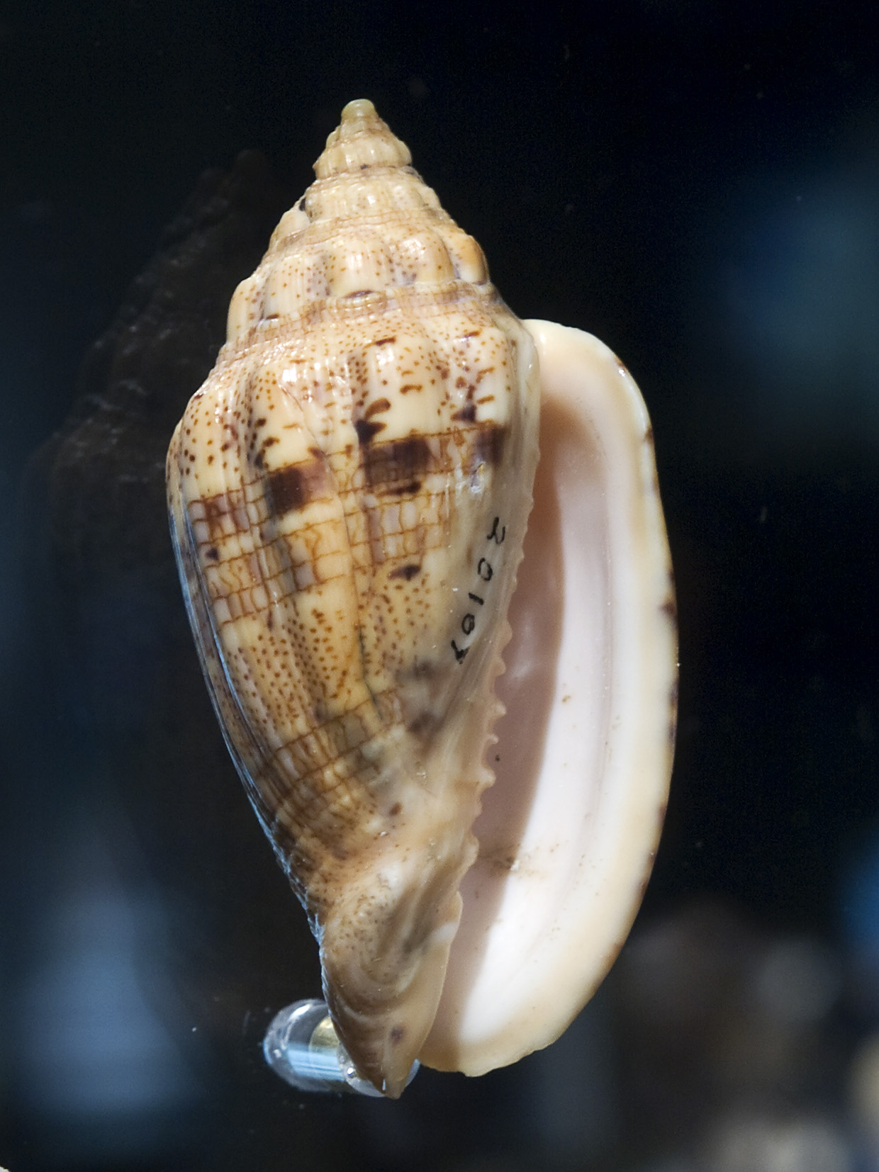 Voluta demarcoi (De Marco’s Music Volute) Honduras HMNS 20107 Wikipedia Loves Art at the Houston Museum of Natural Science This photo of item # 20107 at the Houston Museum of Natural Science was contributed under the team name "Assignment_Houston_One" as part of the Wikipedia Loves Art project in February 2009. Houston Museum of Natural Science The original photograph on Flickr was taken by skarsol—please add a comment to the original Flickr page whenever a use has been made on Wikipedia or another project. Project galleries on Flickr: this institution, this team